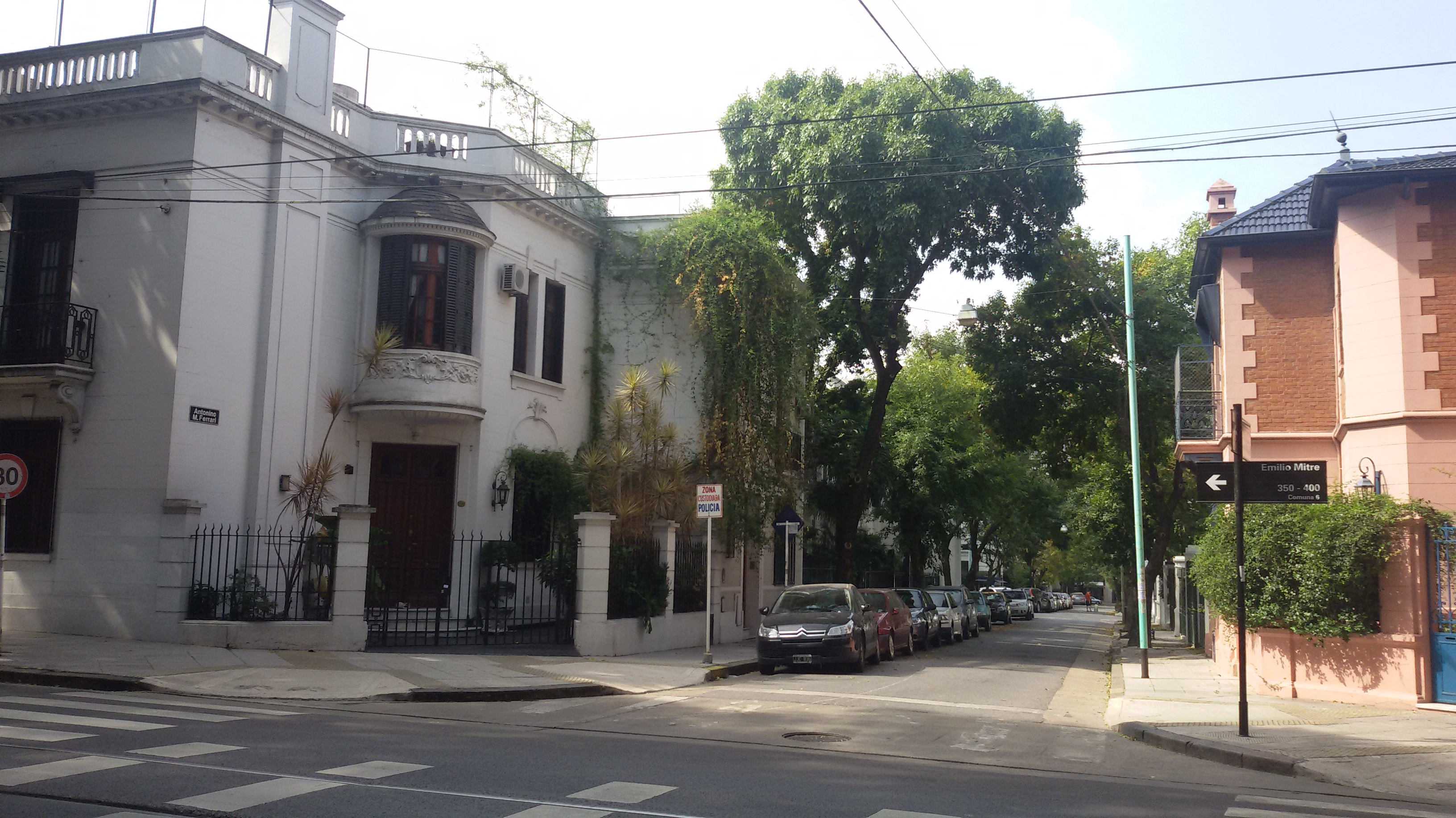 The English Neighborhood of Caballito in Buenos Aires, Argentina.